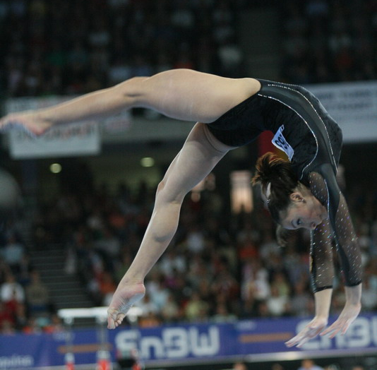 Cătălina Ponor at 2007 World Artistic Gymnastics Championships in Stuttgart, Germany, 9 september.